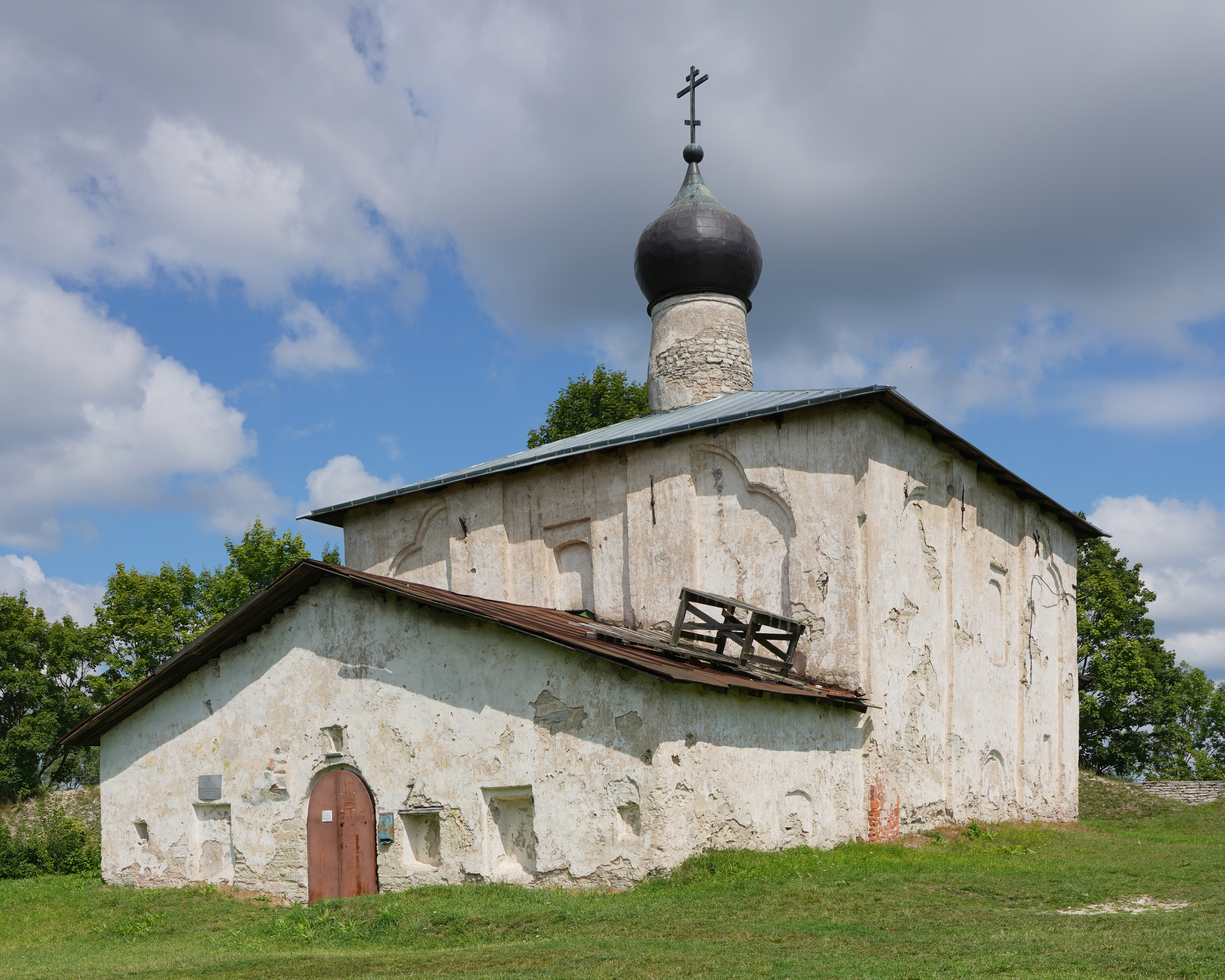 Church of Cosmas and Damian on Gremyachaya Hill in Pskov, Russia